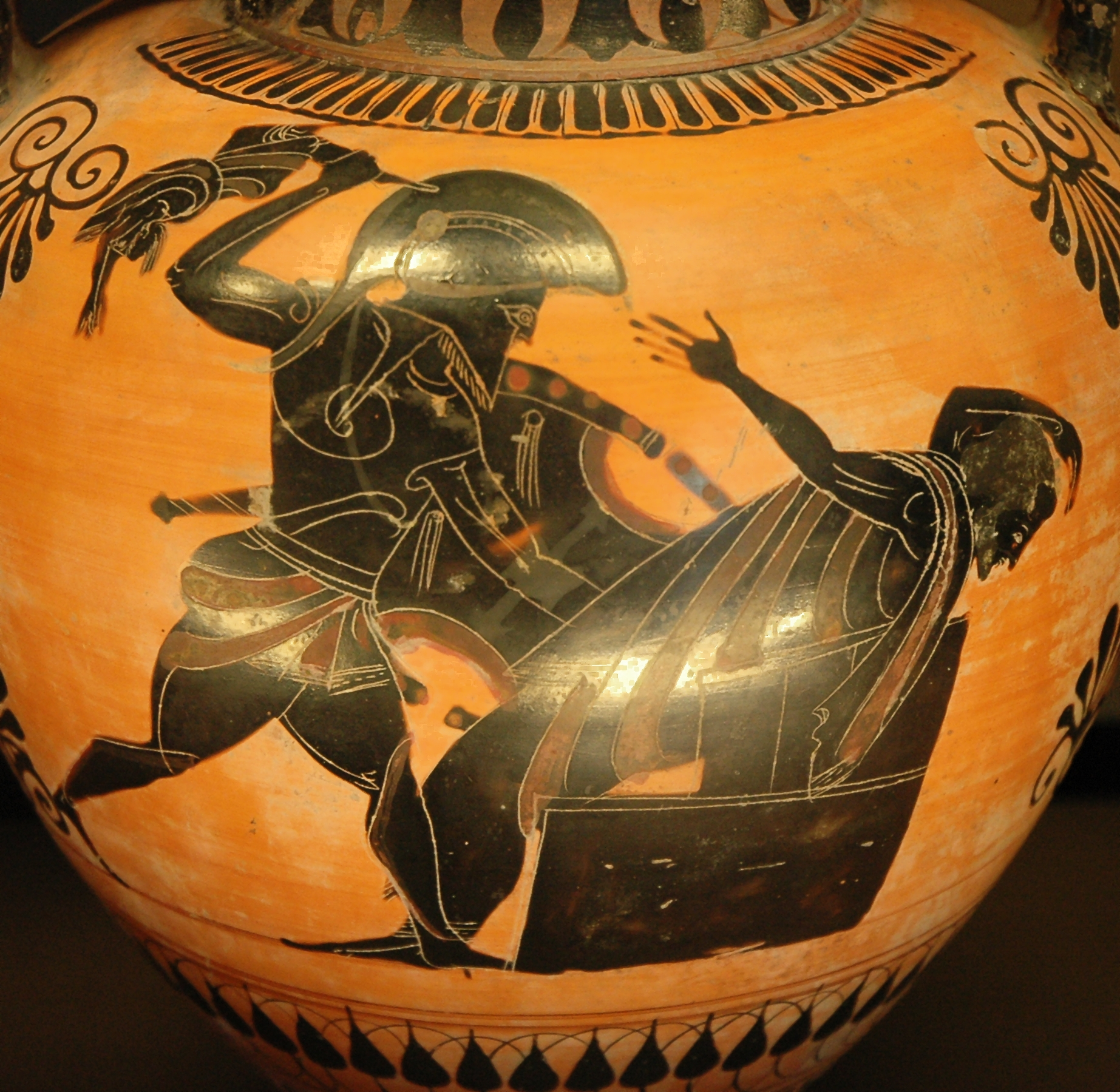 Priam killed by Neoptolemus, son of Achilles, detail of an Attic black-figure amphora, ca. 520 BC–510 BC. From Vulci.